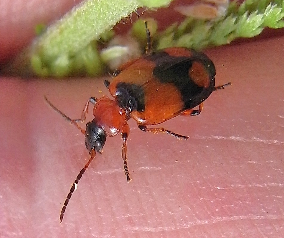 Lebia cruxminor from Hungary, at 2010-07-04 north of Budapest